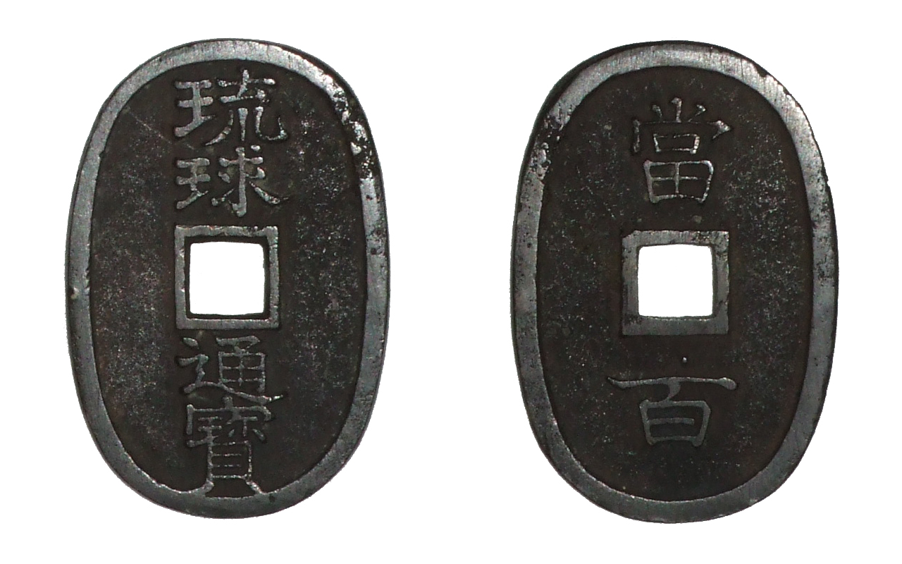 Ryukyu-tsuho-tohyaku